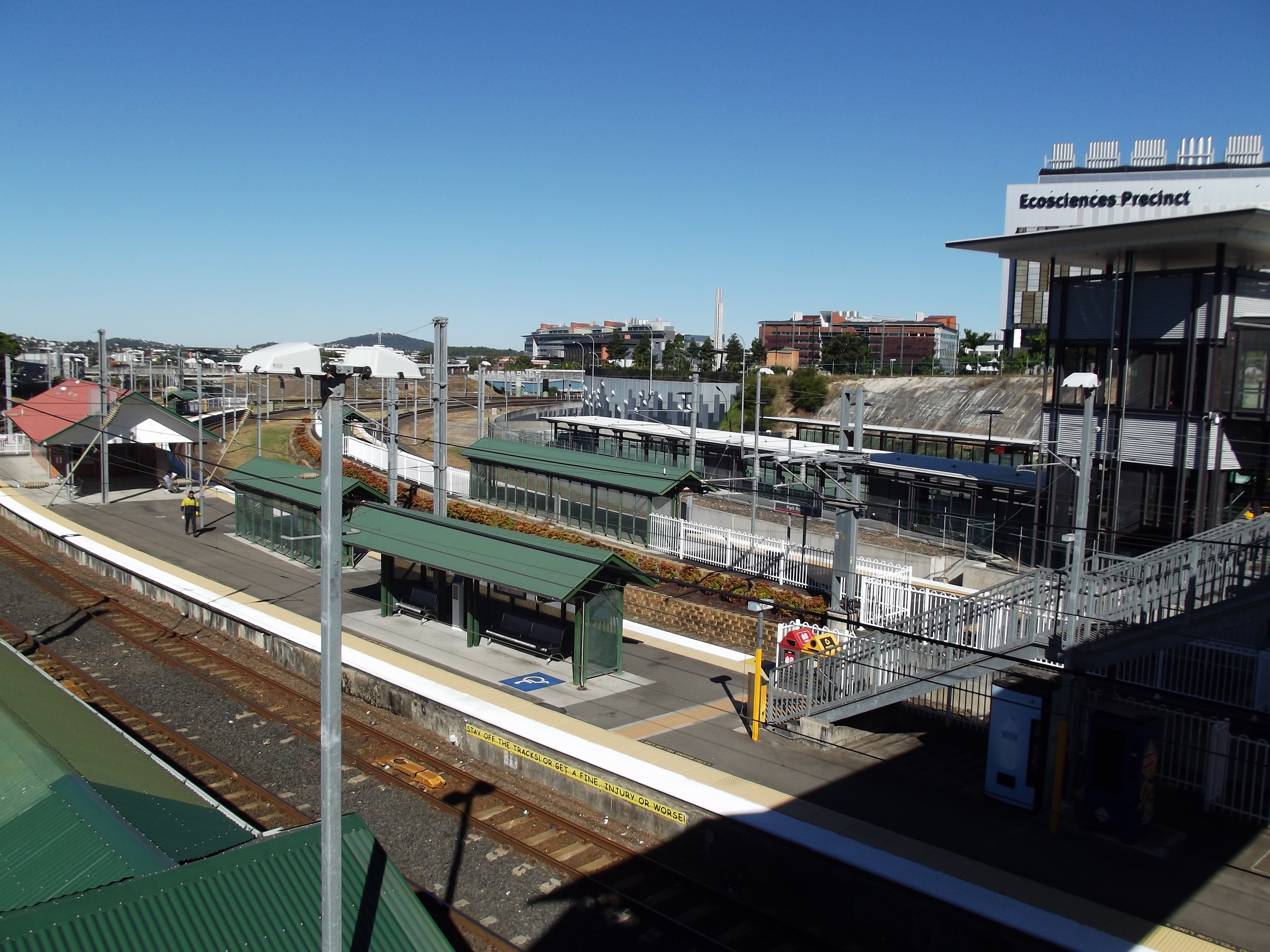 A photo of the Park Road railway station operated by TransLink, located in Brisbane, Queensland.